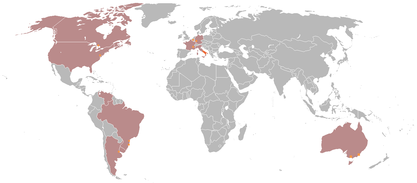 Neapolitan song